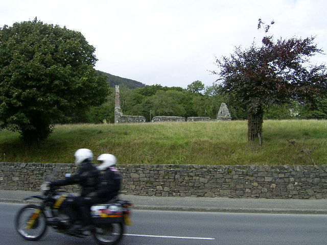 The medieval chapel of St. Trinian's, near Crosby. Built originally around 1230 AD on land belonging to the Priory of St. Ninian, the chapel set in a field next to the TT motorcycle course is famed for "The Legend of The Buggane" a kind of Troll who kept blewing the roof of the chapel.